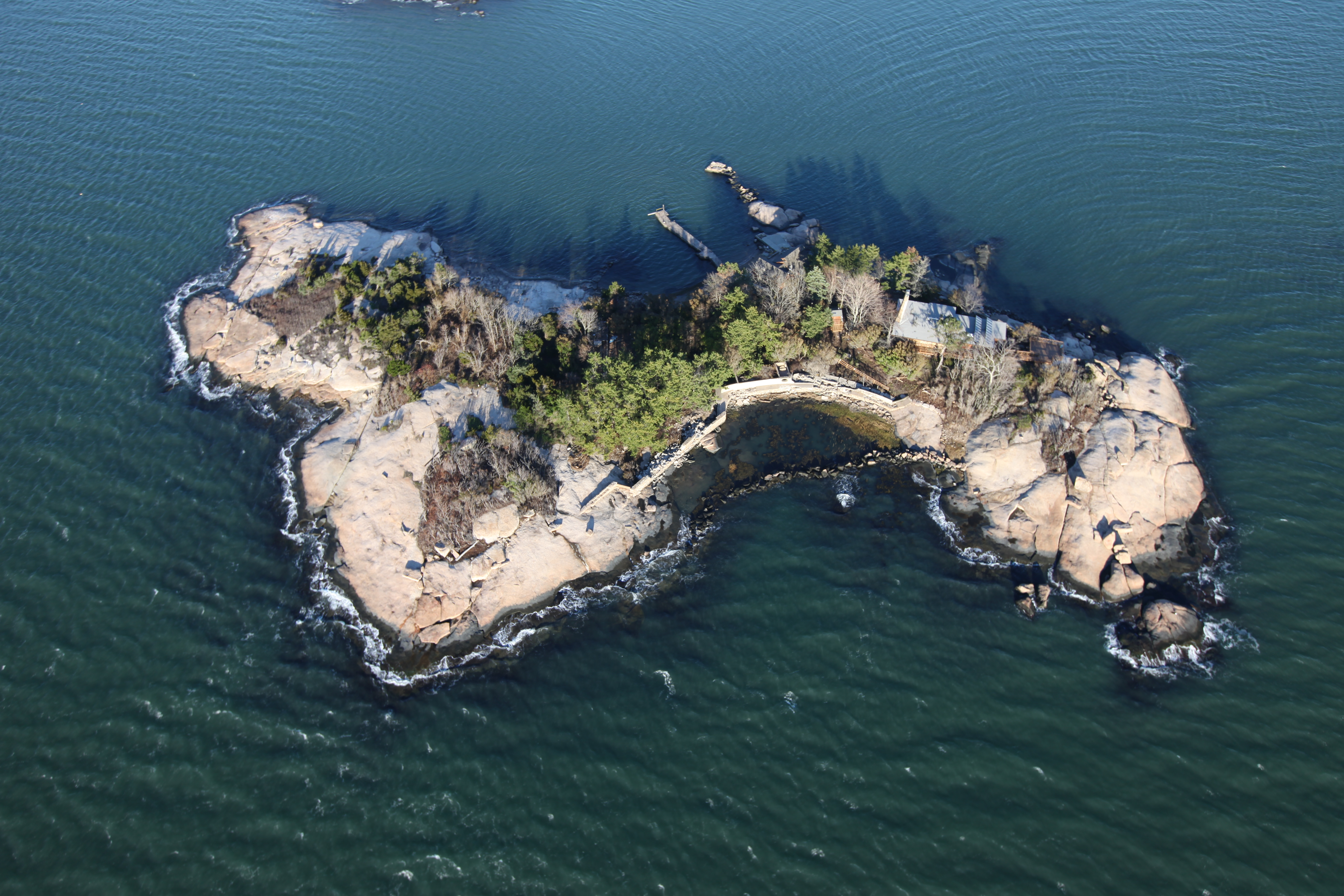 An aerial view of Outer Island at the Stewart B. McKinney National Wildlife Refuge in the aftermath of storm Sandy. Credit: Greg Thompson/USFWS Stay informed